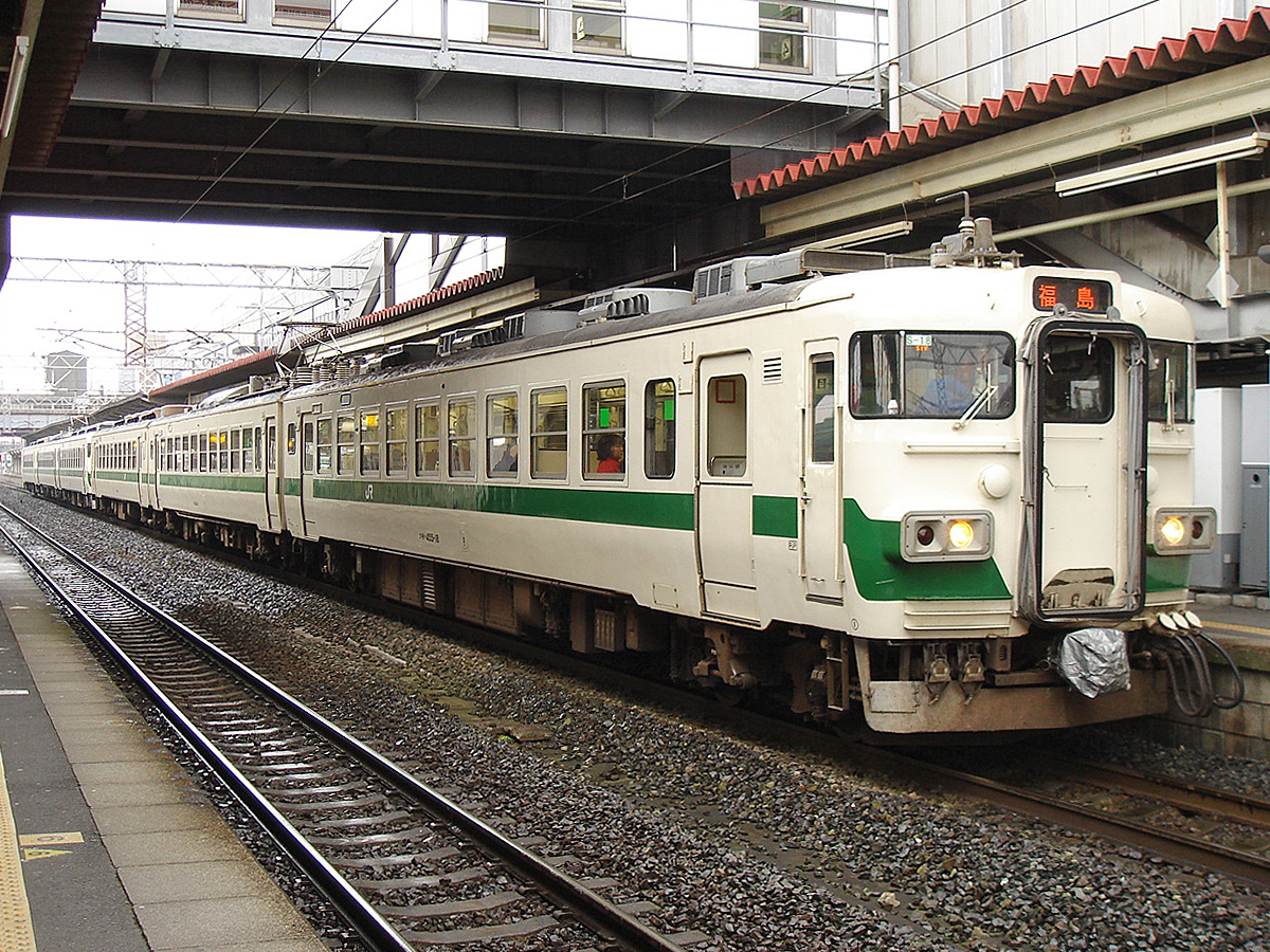 A JR East 455 series EMU at Koriyama Station